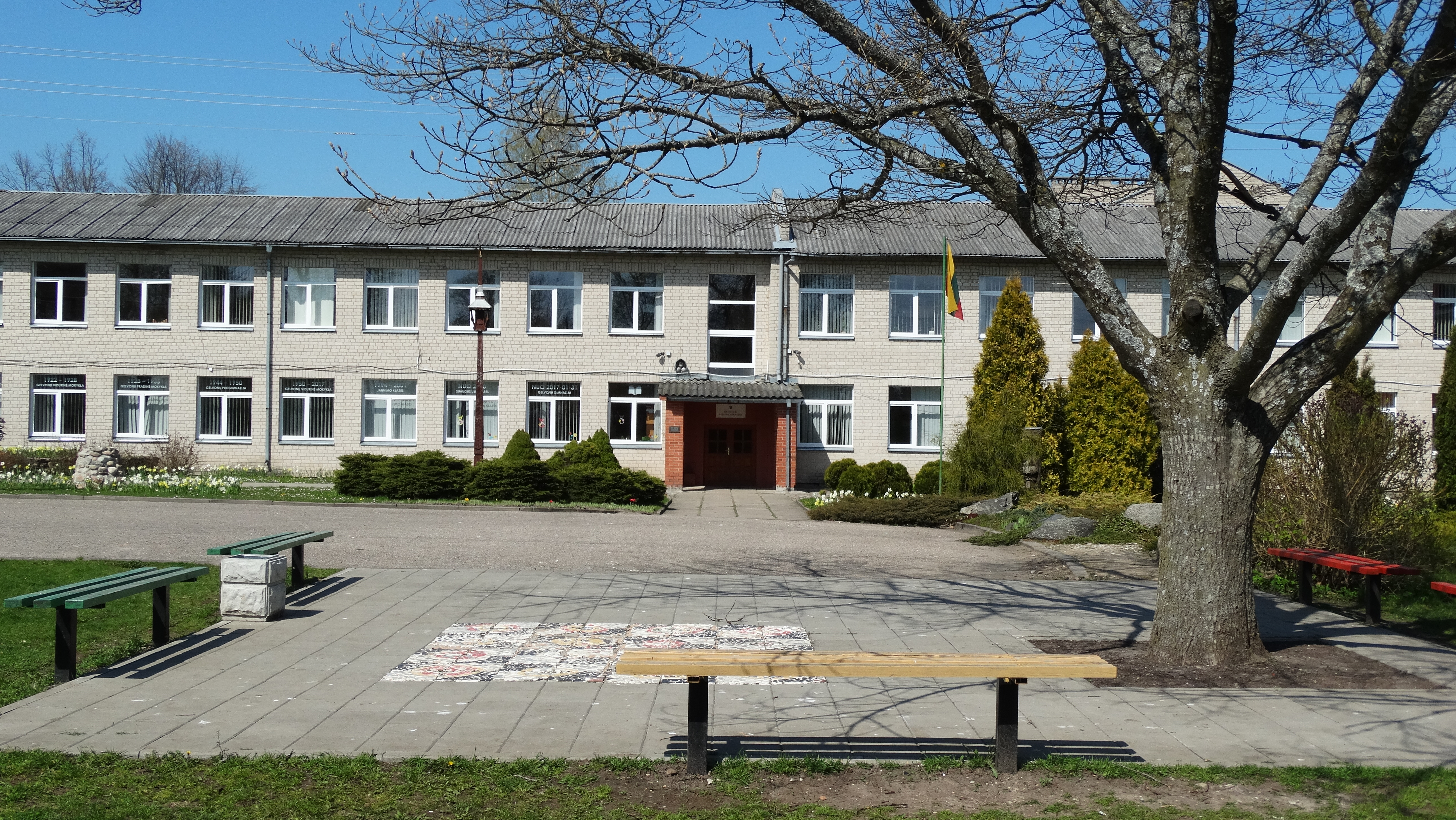 Gelvonai gymnasium, Širvintos District, Lithuania